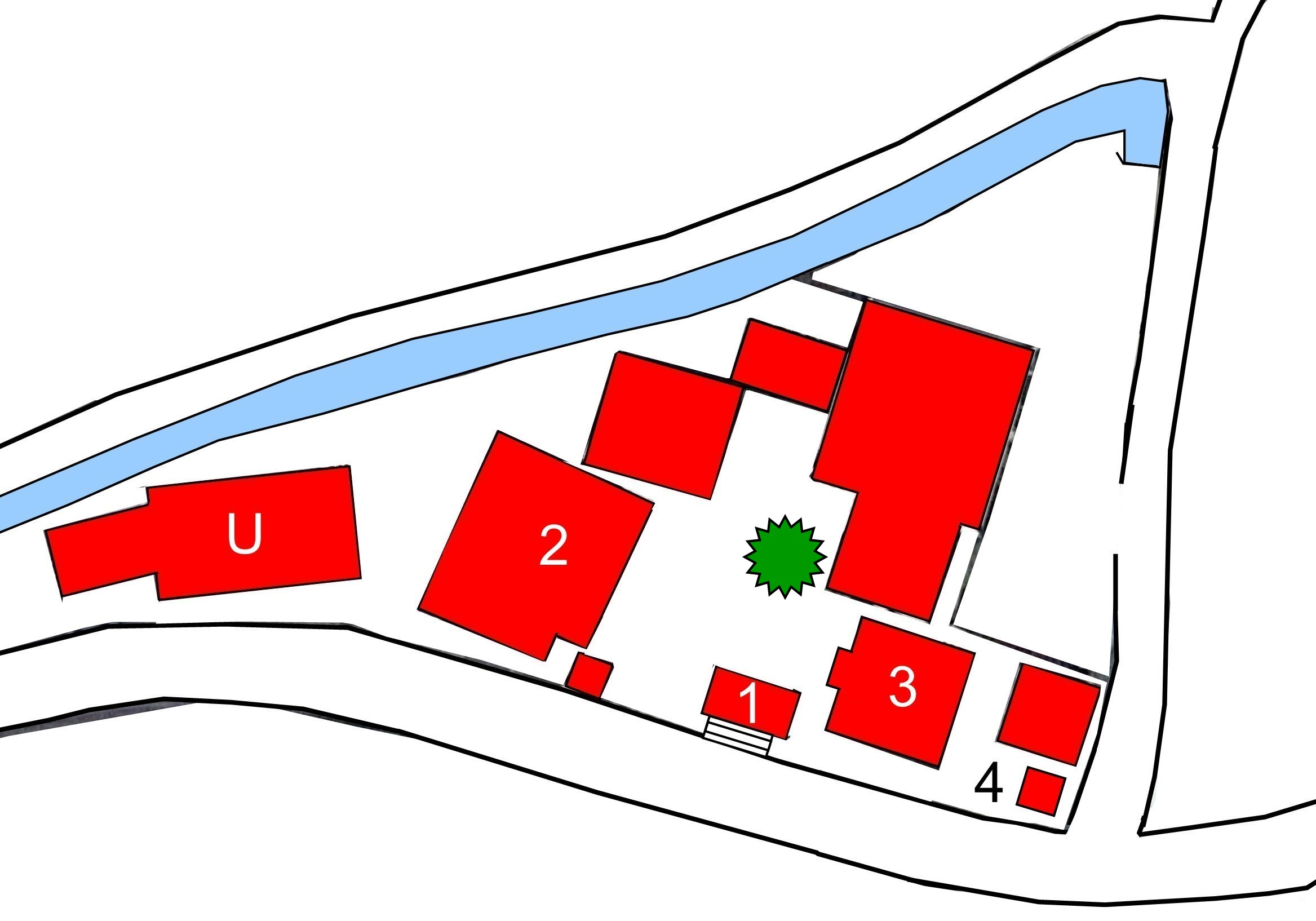 Layout of Dainichi-ji Tokushima